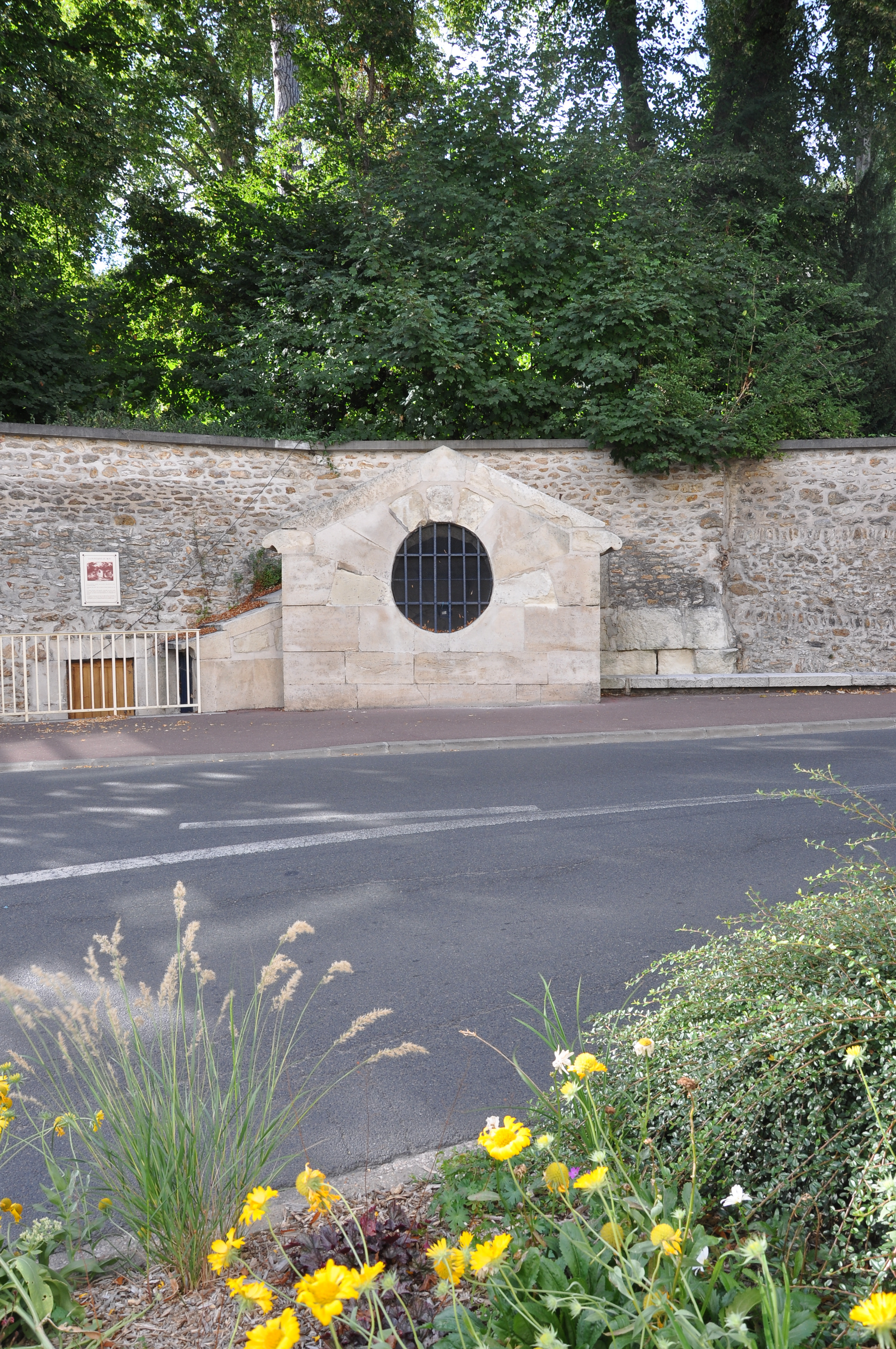 Fontaine du Roi (the King's Fountain) at Ville-d'Avray, department of Hauts-de-Seine in France. The fountain was used to capture a spring for supplying water to the table of the King at Versailles. The building is classified as a historical monument by the French Ministry of Culture